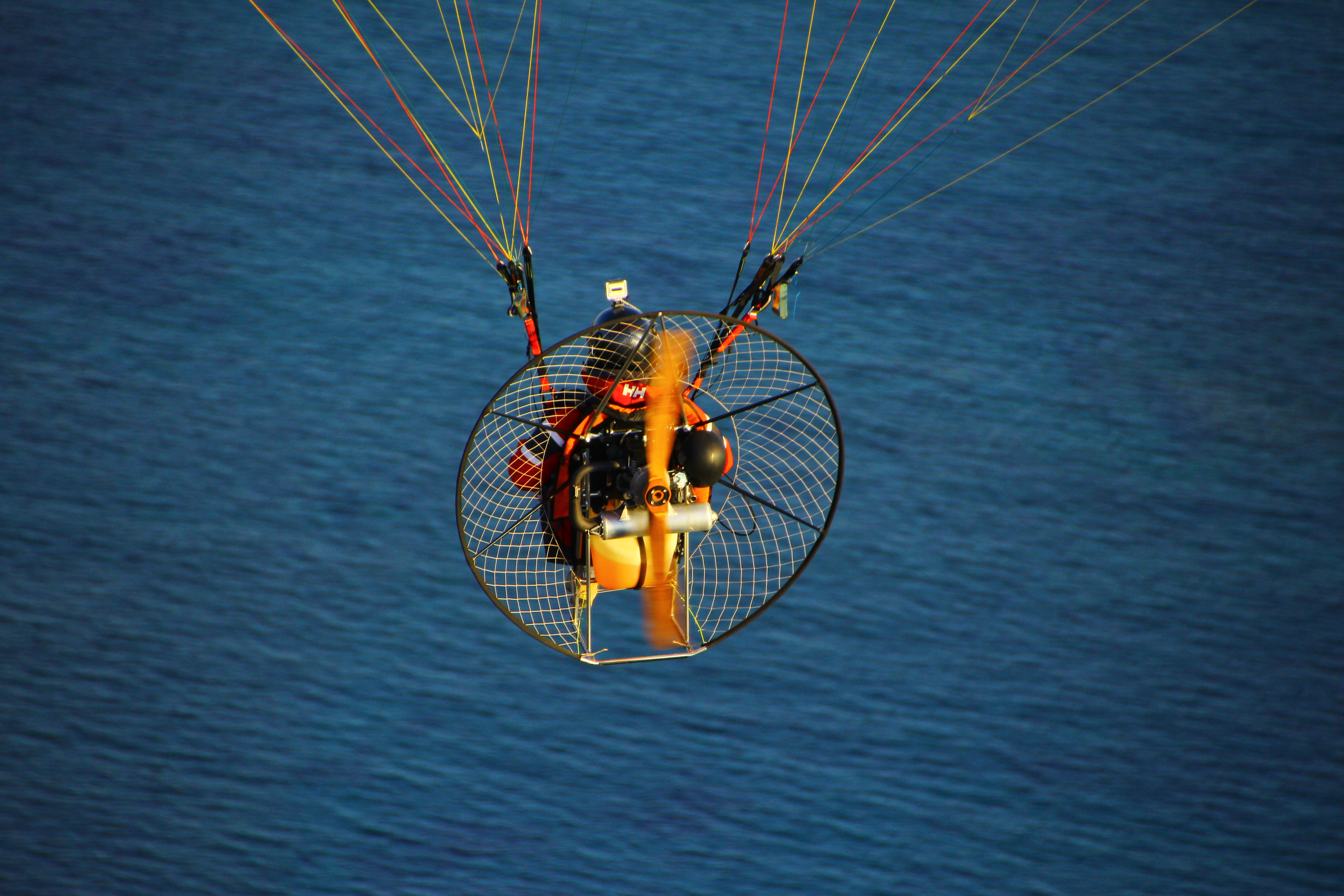 paramotor by the sea